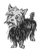 An illustration by W. W. Denslow from The Wonderful Wizard of Oz, also known as The Wizard of Oz, a 1900 children's novel by L. Frank Baum.